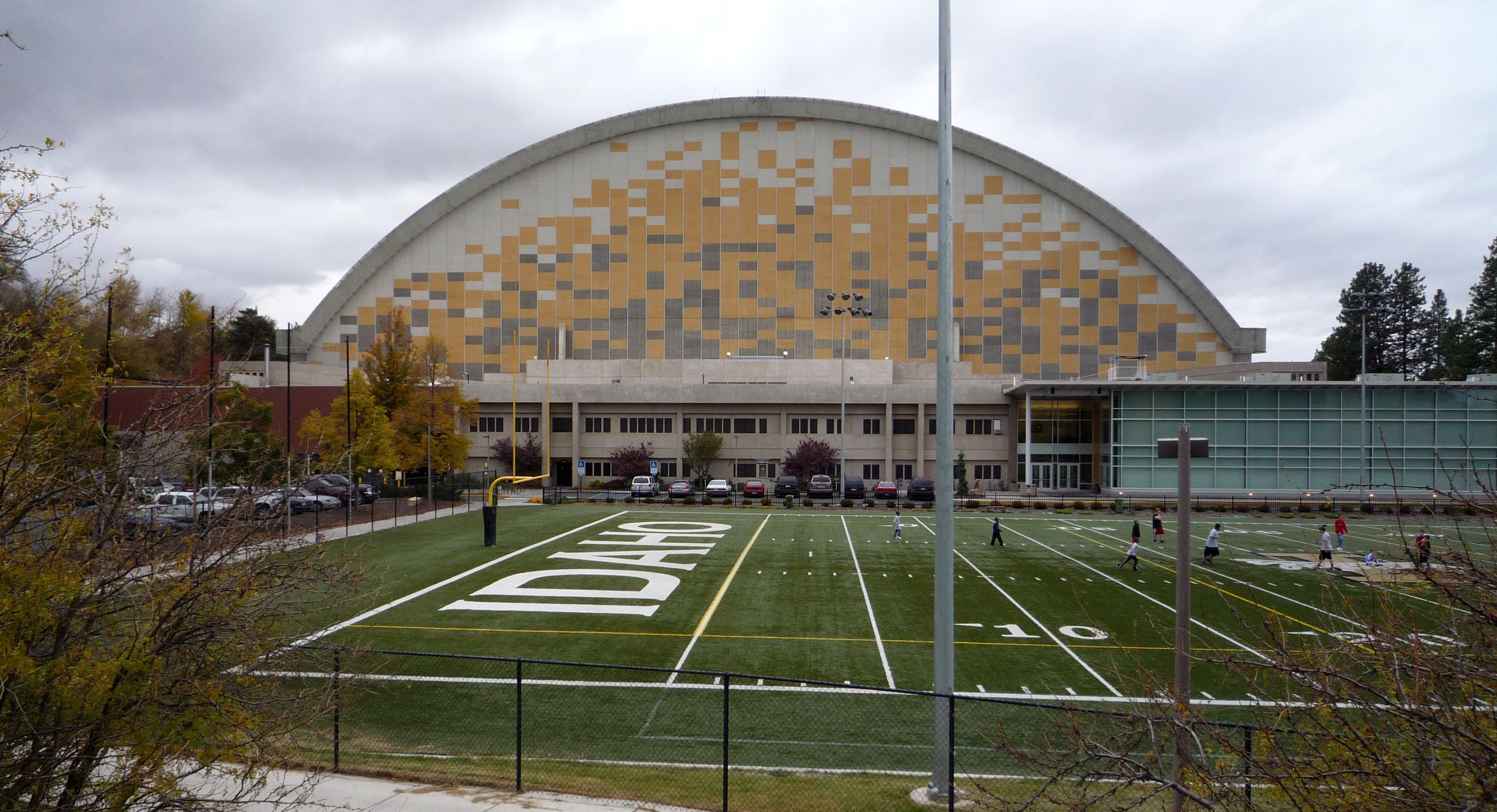 The eastern side of the Kibbie Dome, the main arena of the University of Idaho football team in Moscow, Idaho. The Dome was built in 1971; the attached office building (East End Addition) houses departmental offices, locker rooms, a weight room, equipment rooms, and both men's and women's varsity locker rooms and was completed in August 1982; the more modern facility attached to the right (Northeast) is the new training facility for student athletes (Vandal Athletic Center).